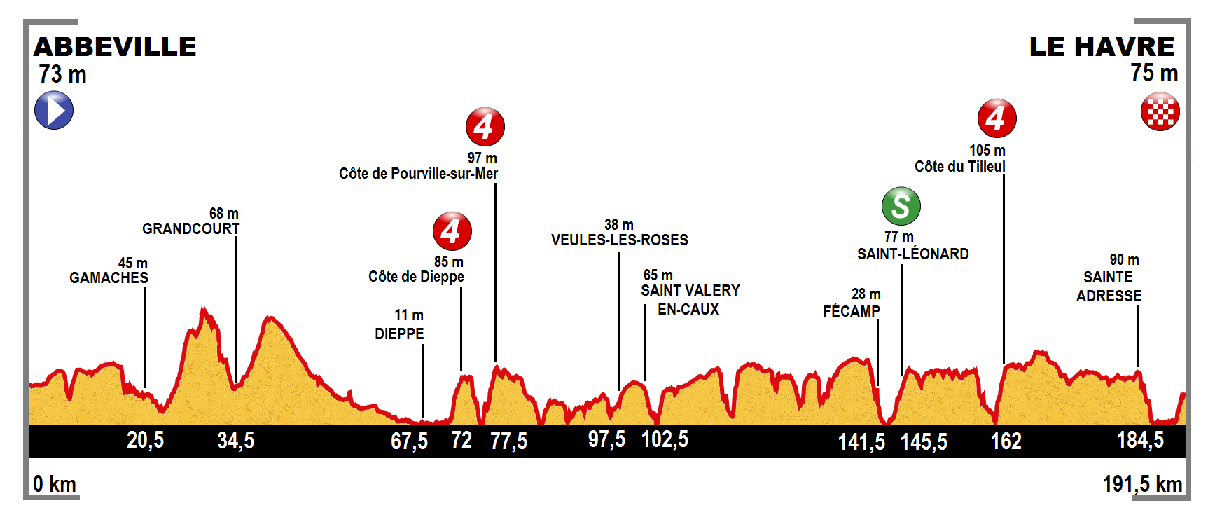 Profile of the 6th stage of the Tour de France 2015